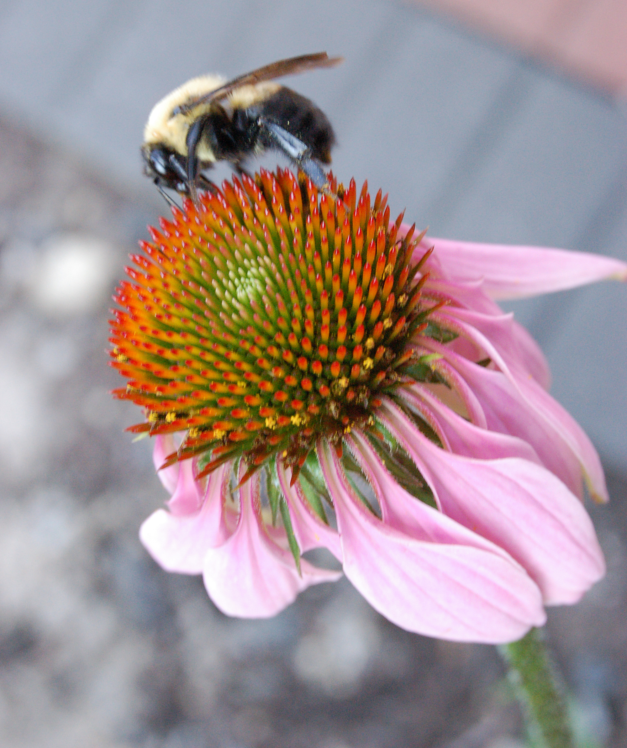 Echinacea purpurea with a bumble bee.